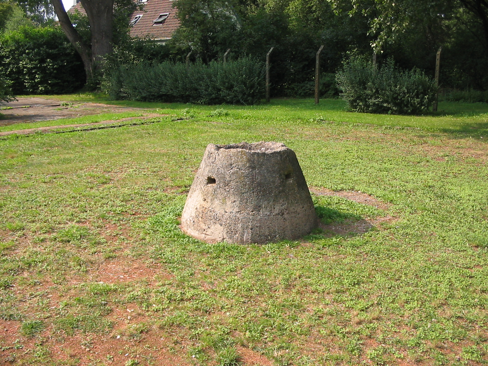 Außenlager Annener Gußstahlwerk des KZ Buchenwald (Subcamp Annen Steelworks of concentration camp Buchenwald) in Witten: single person bunker